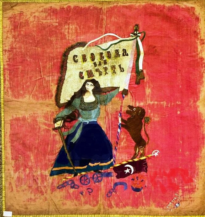 The banner of the insurgents in Struga, during the Ilinden uprising (front side).